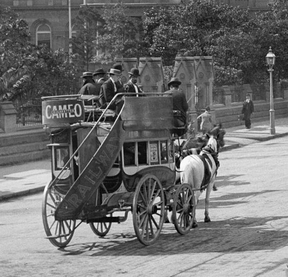 Sydney Omnibus circa 1898